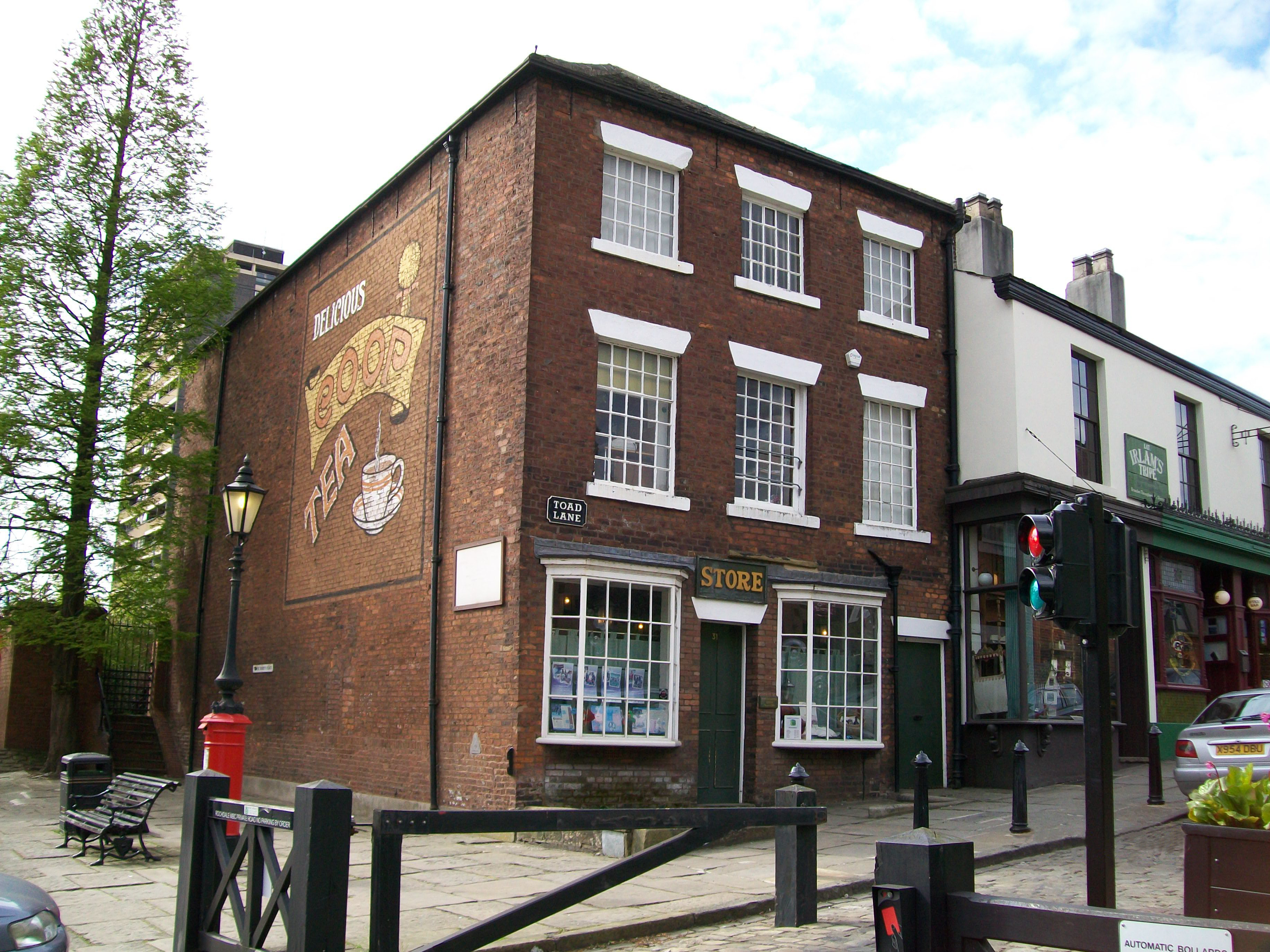 Toad Lane Museum from the outside, first premises of "The Rochdale Pioneers" early successful retail Co-operative, Rochdale England.